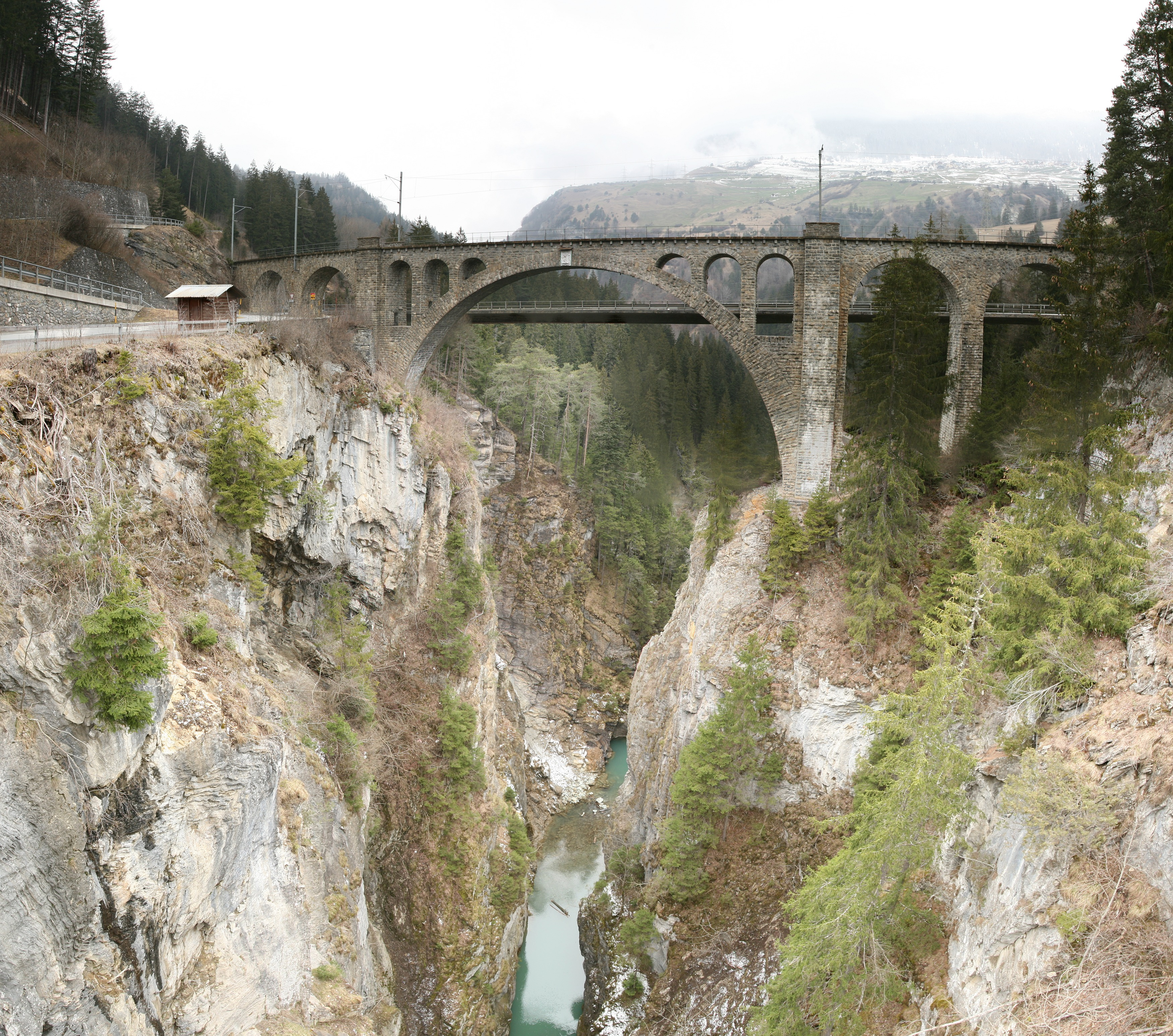 Solis Bridge of the Albulabahn in Switzerland.